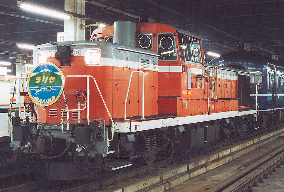 JR Hokkaido Class DE15 diesel locomotive DE15 1501 at Sapporo Station on a Marimo service